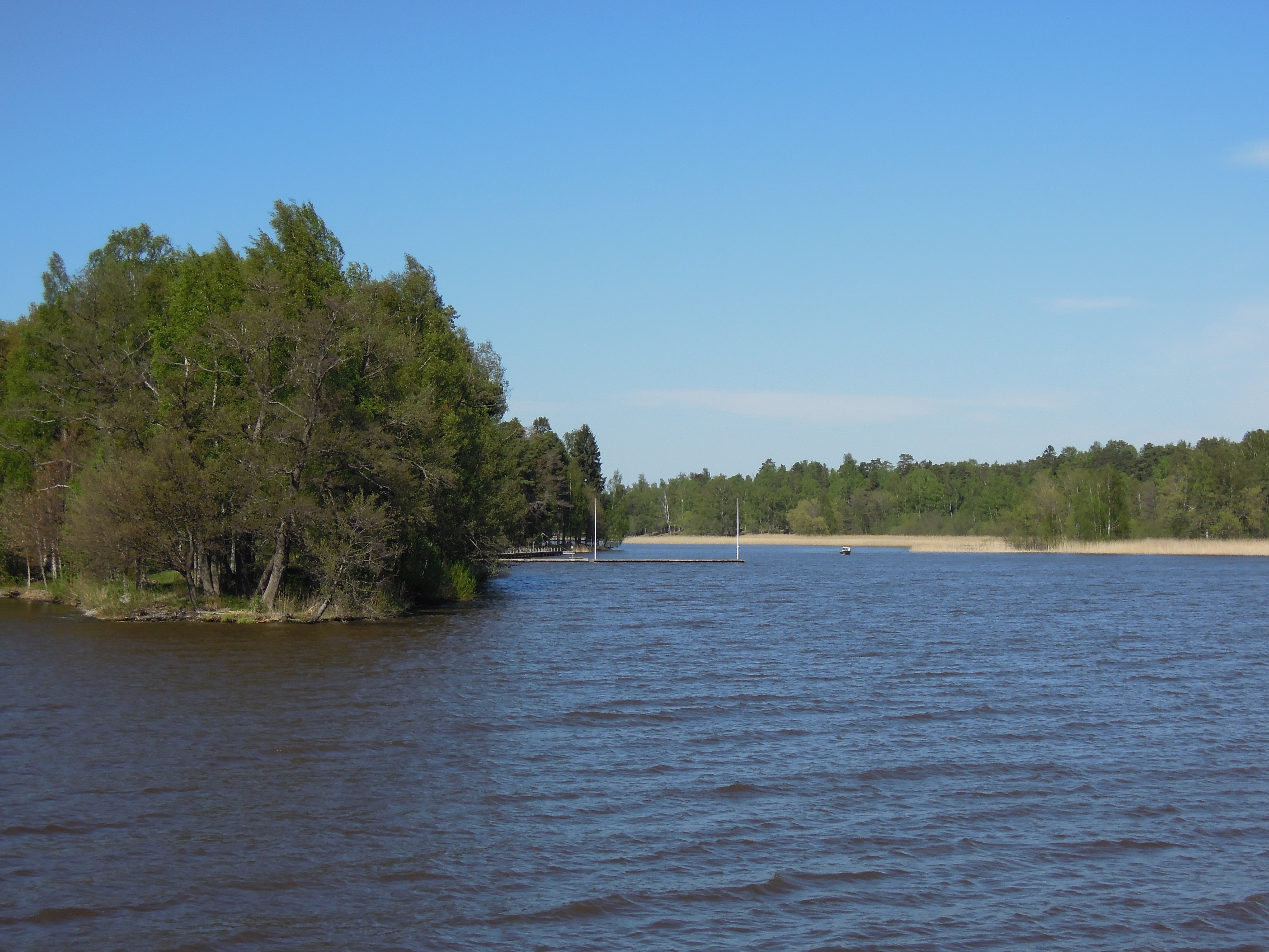 The island of Rågsäcken in Mälaren seen from south, close to Västerås, Sweden.